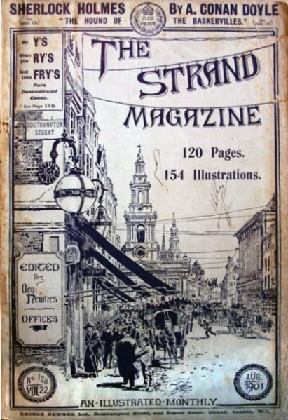 Cover of The Strand Magazine